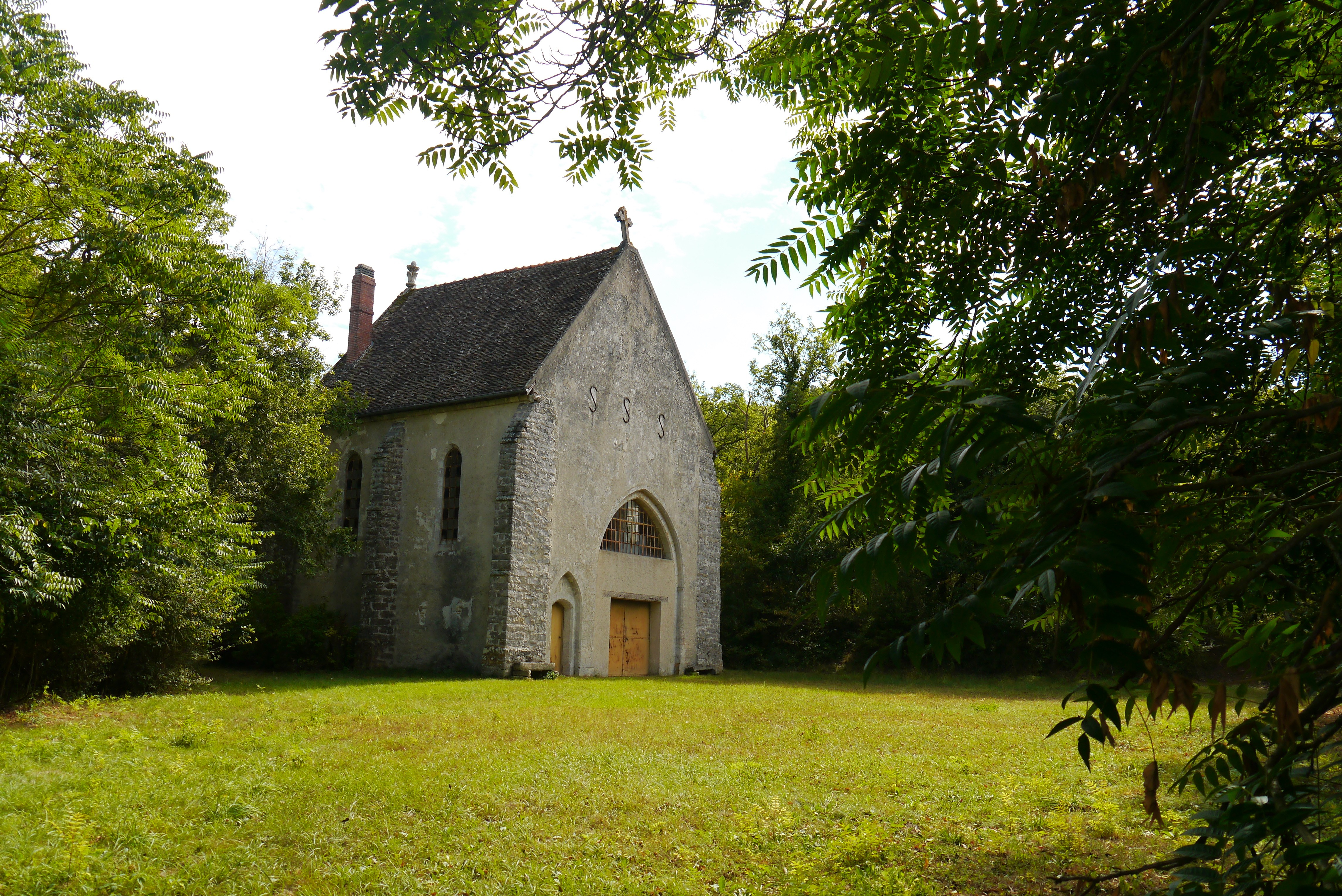 Buno-Bonnevaux, Essonne, France. Chapelle de Bonnevaux.